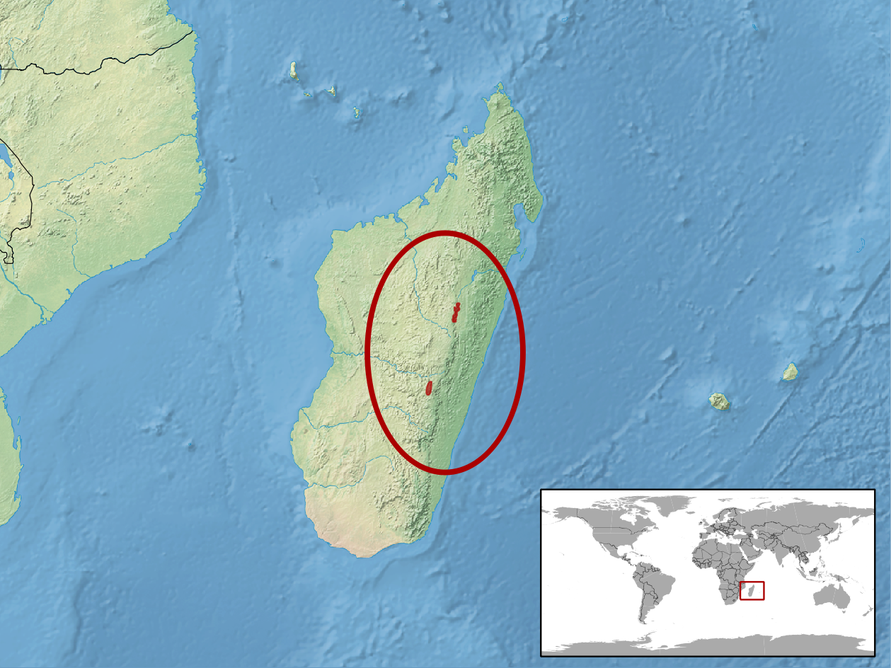 geographic distribution of Madascincus macrolepis